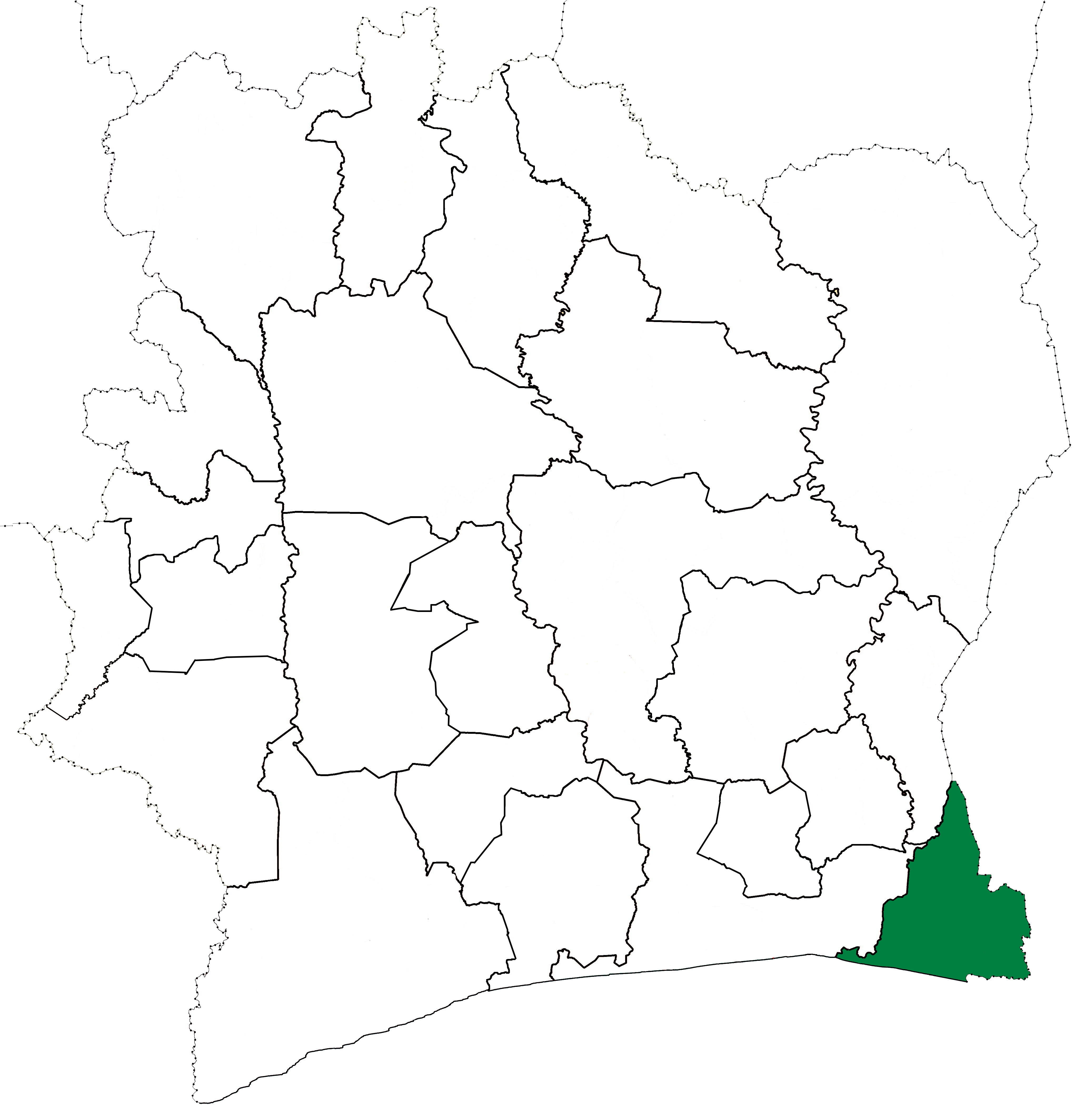 Locator map for Aboisso Department in Côte d'Ivoire when the 24 new departments were created in 1969. Aboisso Department kept these boundaries until 1998, but other departments began to be divided in 1974.